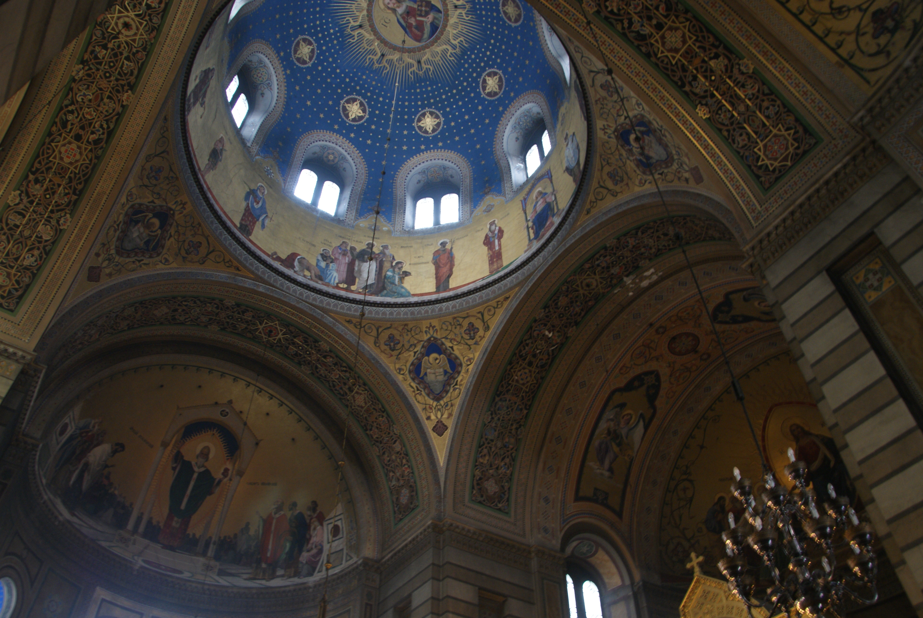 Interior of Serbian-orthodox church of San Spiridione, Trieste